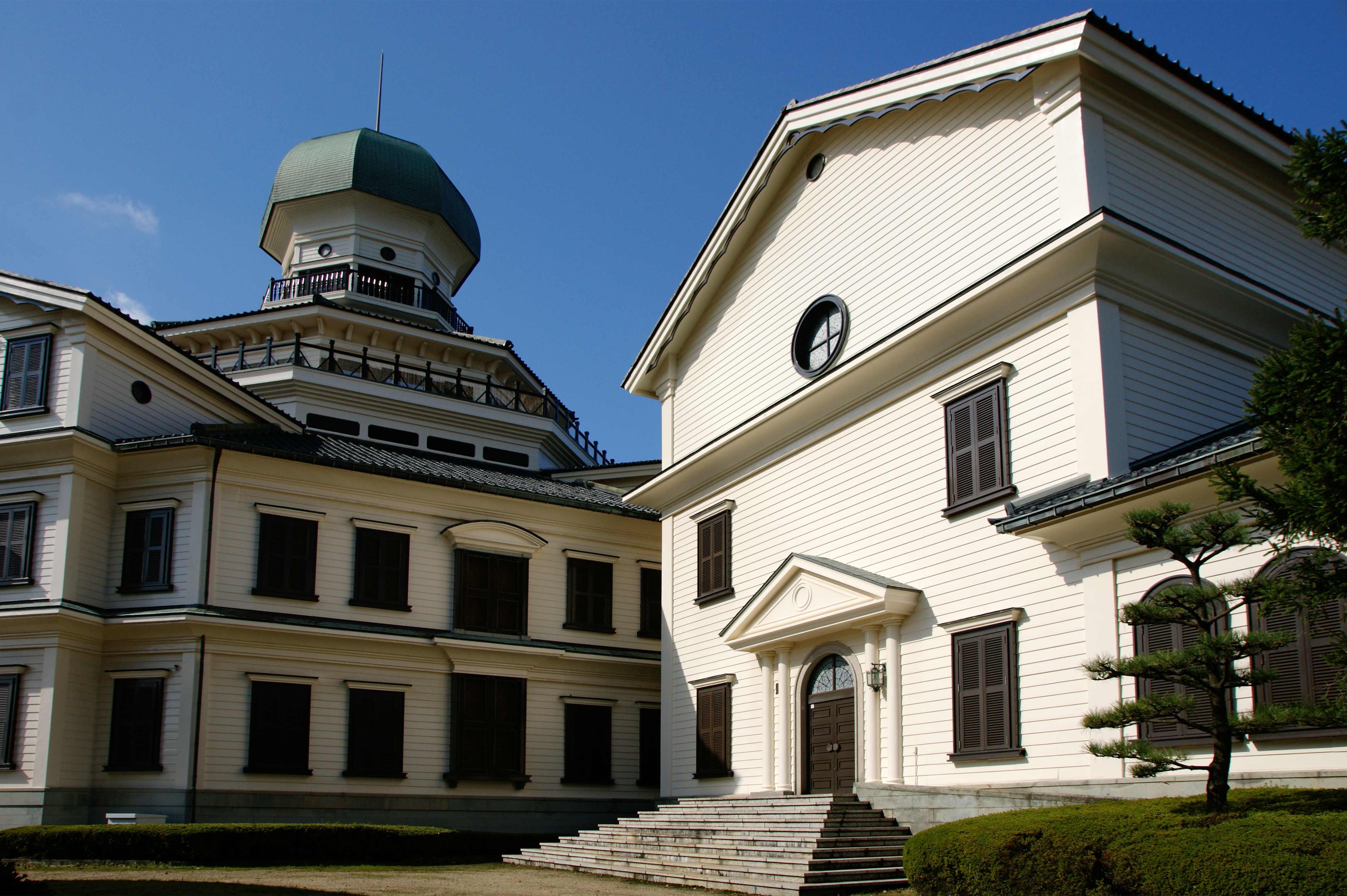 Mikuni-ryushokan, Sakai, Fukui prefecture, Japan